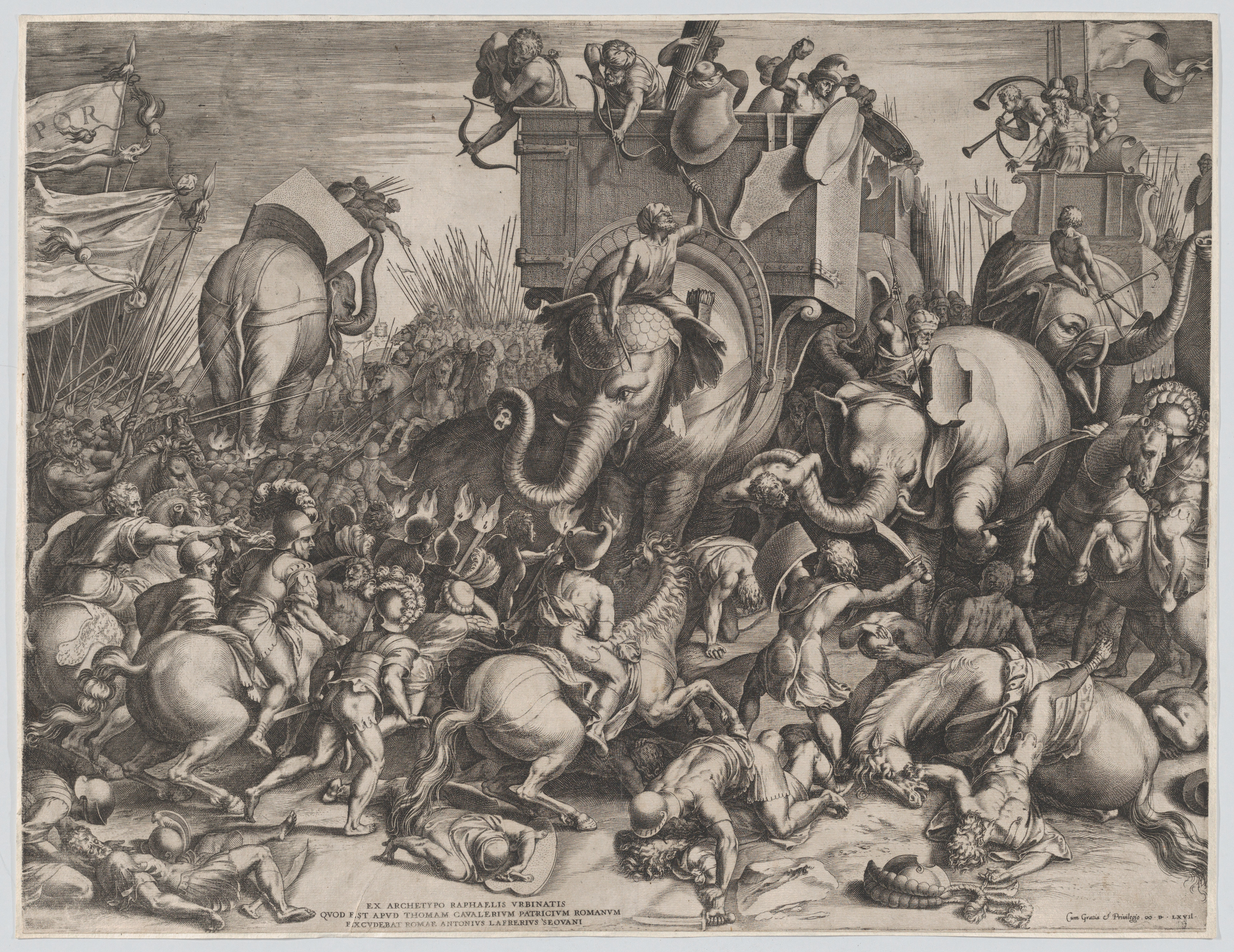 Print; Prints